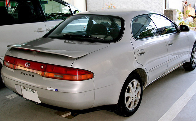 1993 Toyota Corolla Ceres